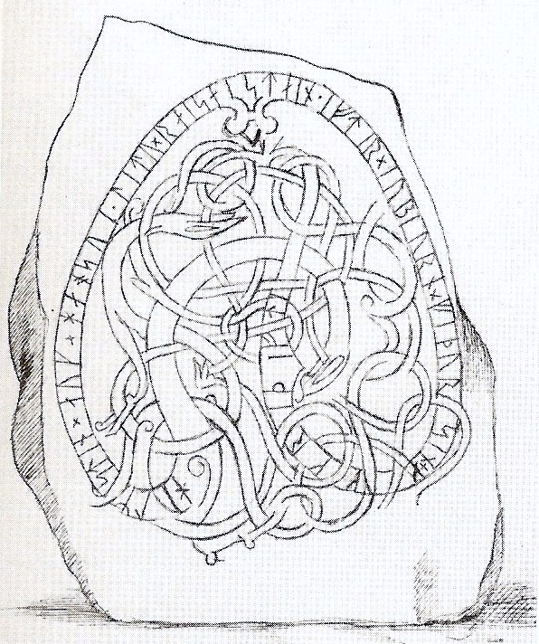 Drawing of runestone U 77 originally from Råsta, Spånga, Sweden, now in Sundbyberg.